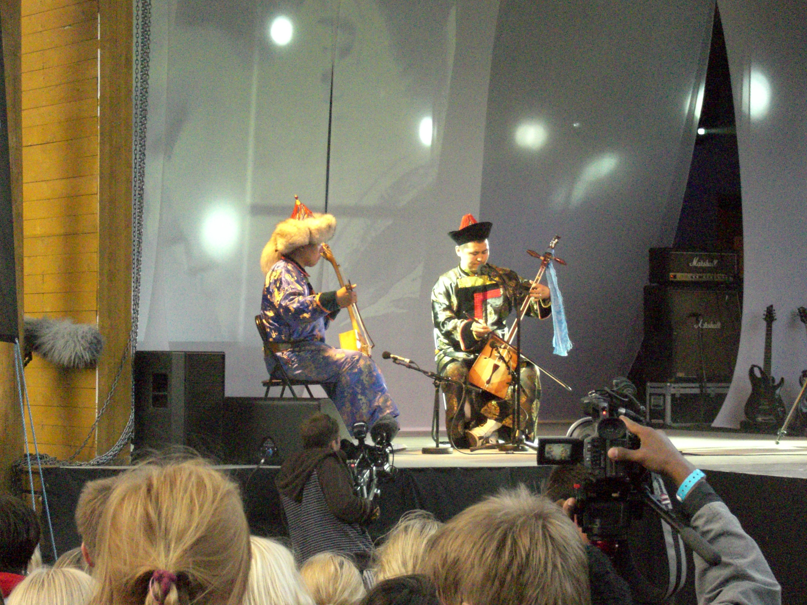 Festival of Riddu Riđđu of natural cultures in Norway, 2007